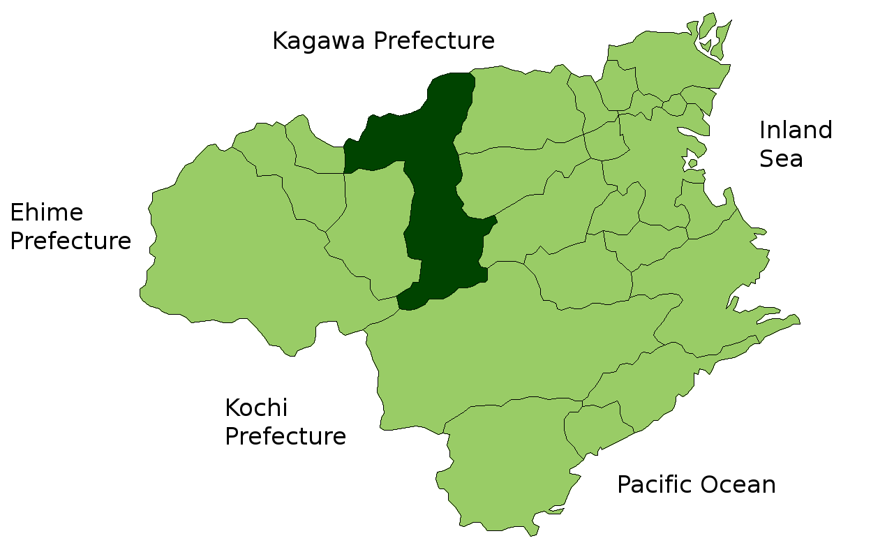 Map of Tokushima Prefecture highlighting Mima city. Borders of map as of October, 2006. (blank map used from [1]) See also Image:TokushimaMapCurrent.png